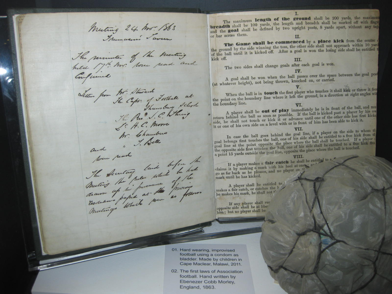 Photo of the original hand written 'Laws of the game' for association Football drafted for and behalf of The Football Association by Ebenezer Cobb Morley in 1863 on display at the National Football Museum, Manchester. The handwriting on the left is that of Cobb Morley and reads: Meeting 24th November 1863 Freemasons Tavern The minutes of the meeting held 17th Nov were read and confirmed. Letters from Mr StewardThe Captain of Football at Shrewsbury School Lt H C Moore Mr Chambers and Mr J Bell The Secretary laid before the meeting the (illegible) which had been drawn up in (illegible) of the (illegible) at previous meetings which were as follows